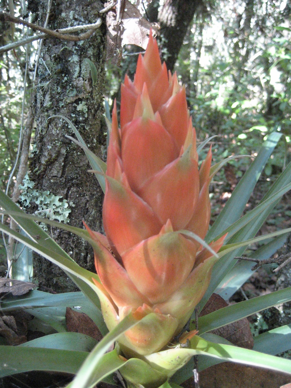 Near the Orquídeas Moxviquil in San Cristóbal de las Casas, Chiapas.